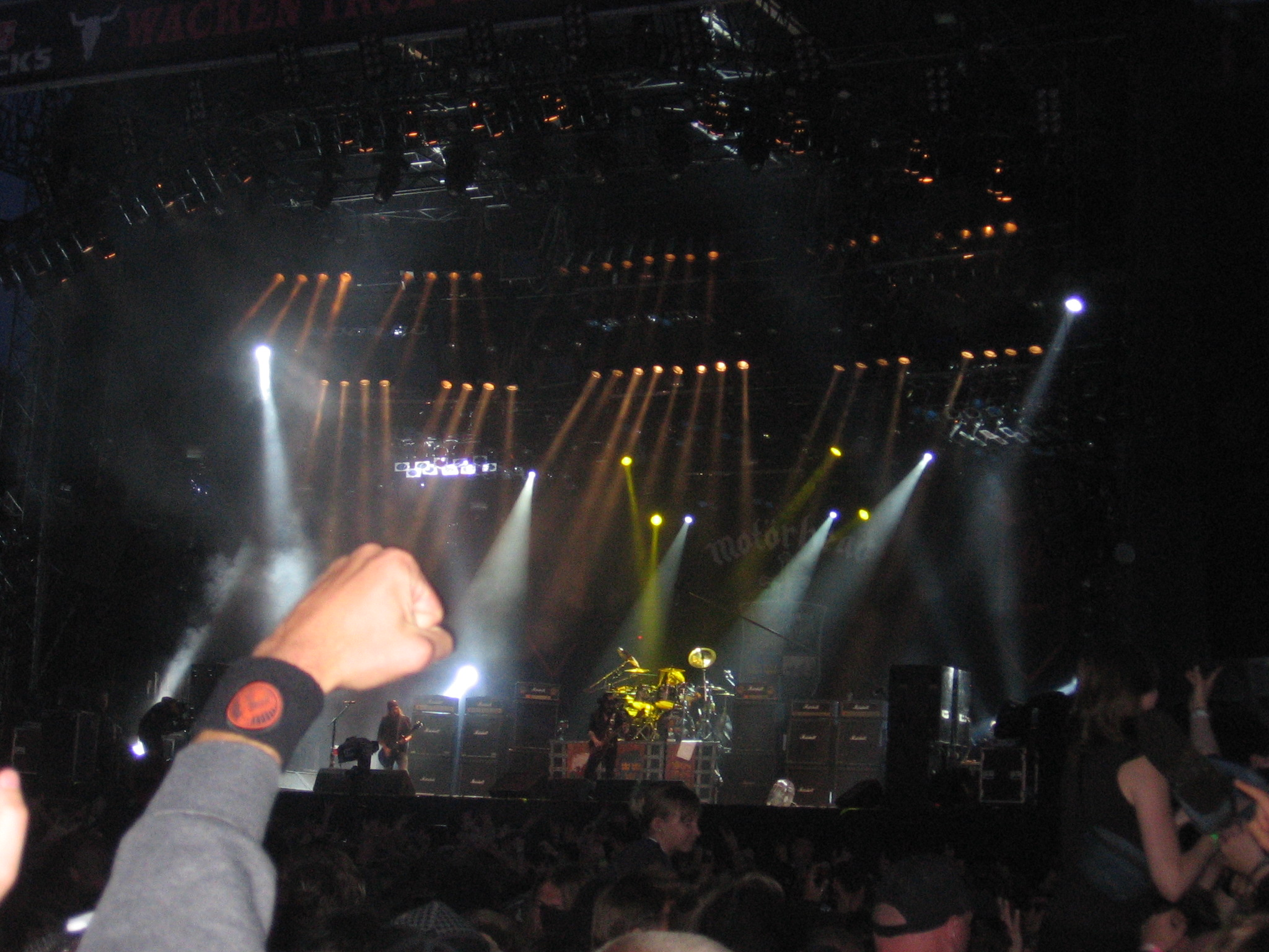 Motörhead on metal festival Wacken Open Air 2009.